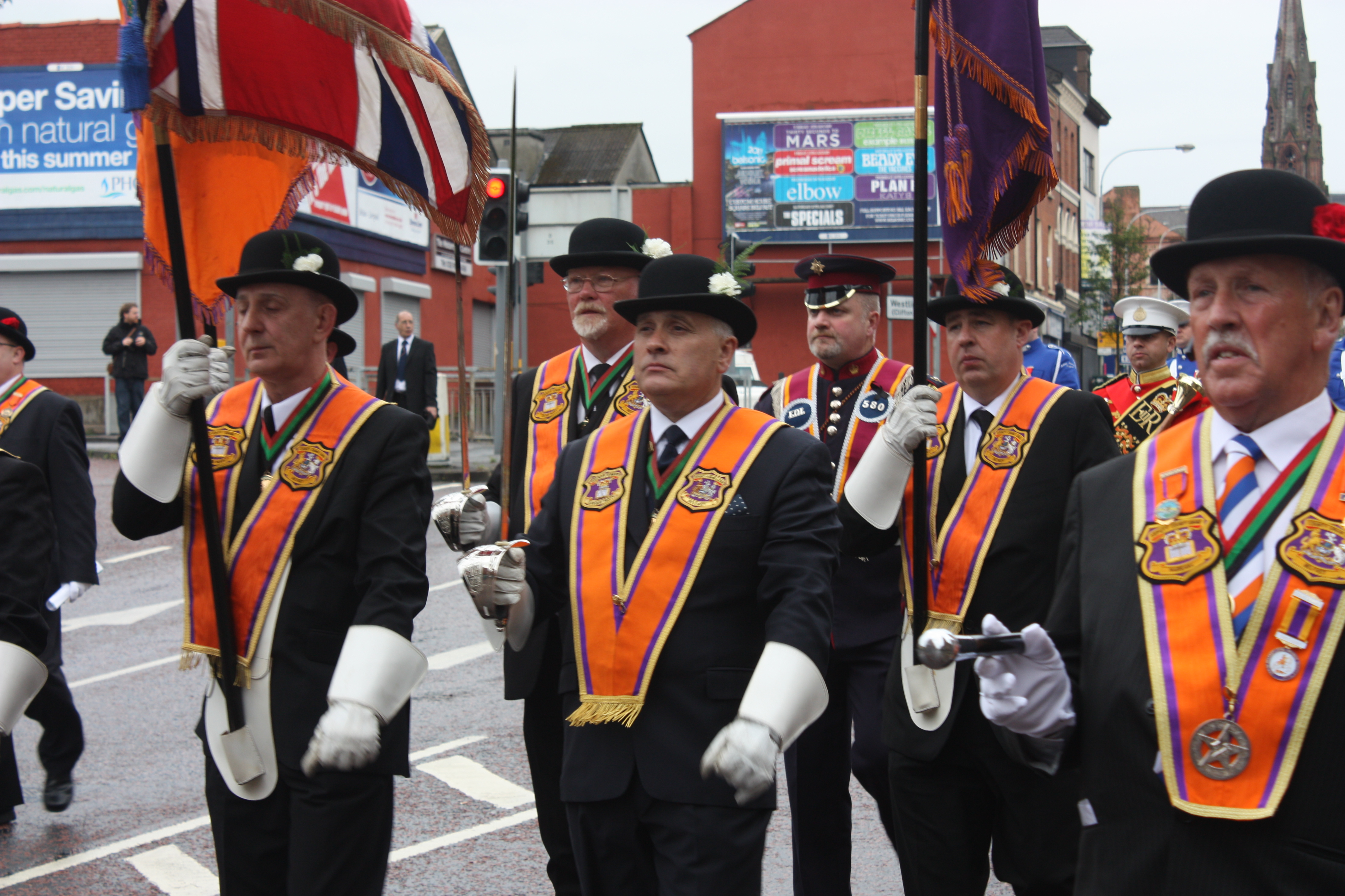 Head of the parade, 12 July Orange Parades, Donegall Street, Belfast, Northern Ireland, July 2011